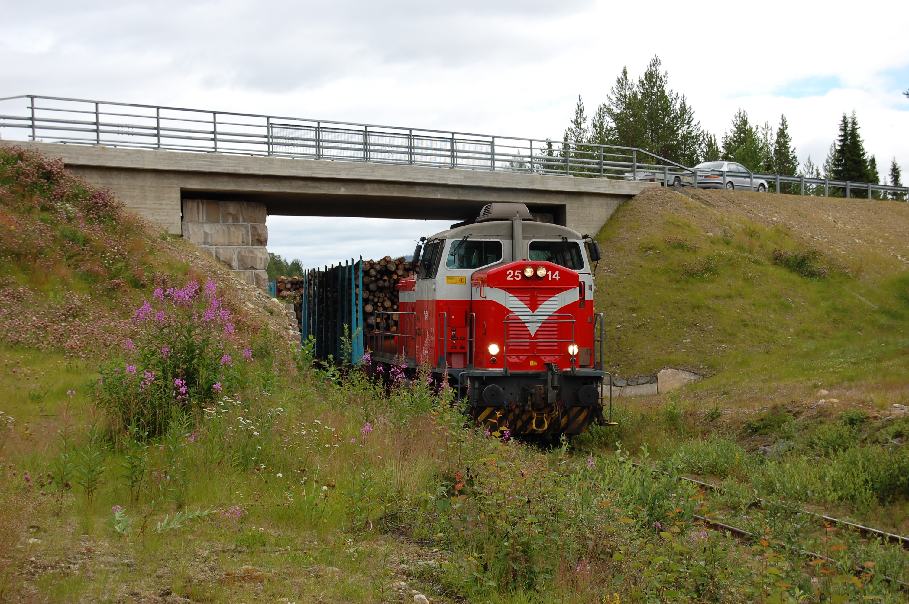 Freight train hauled by VR Class Dv12 (no. 2514) passes under National road 82 on Laurila–Kelloselkä railway in Salmivaara, Salla, Finland